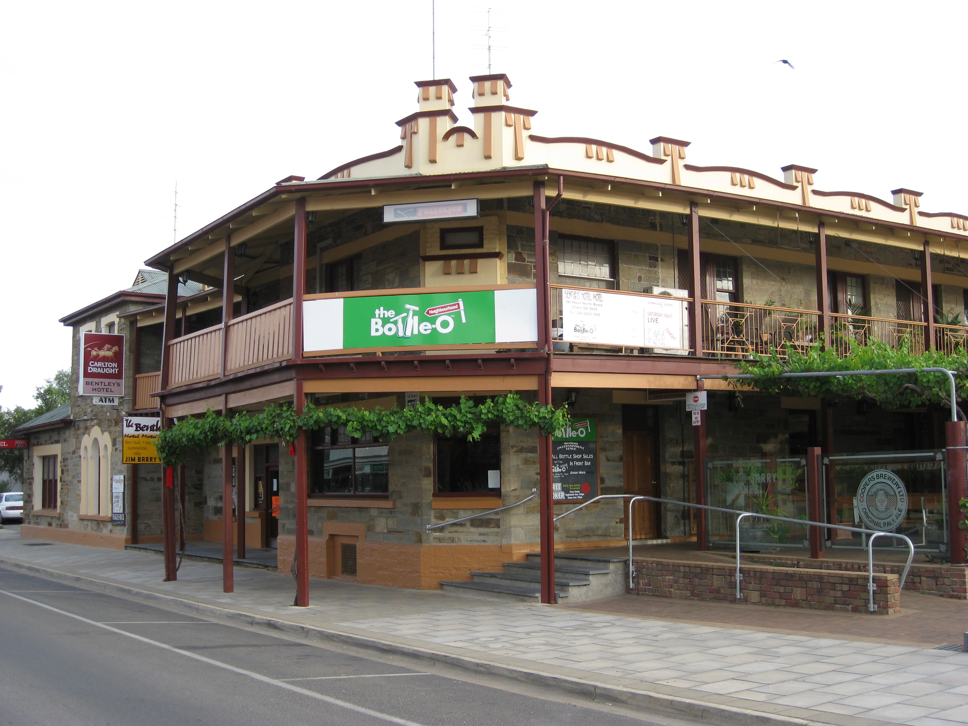 Bentley's Hotel, Main North Road, Clare, South Australia. 1 of 3 pubs located along the main street of Clare.